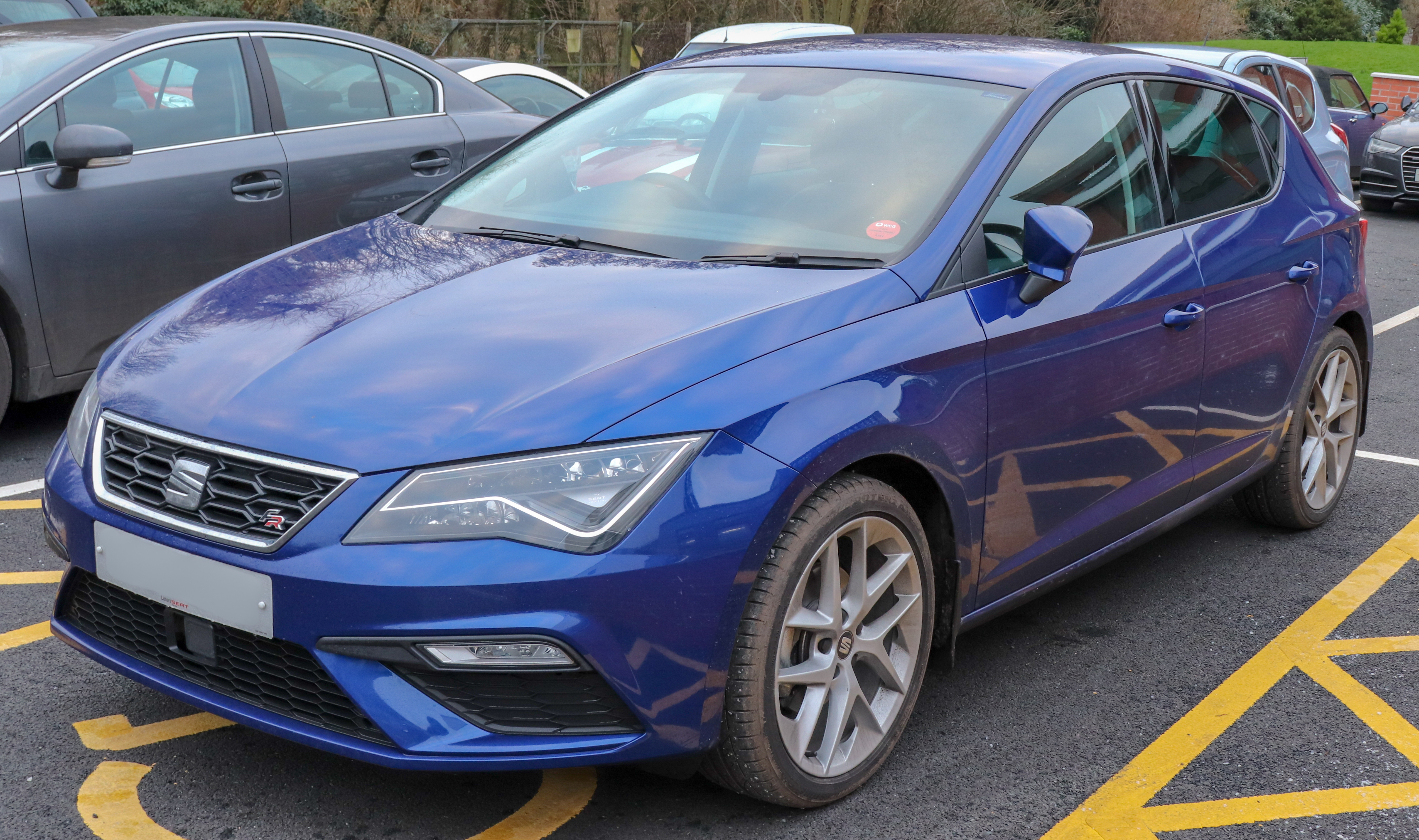 2017 SEAT Leon FR Technology TSi facelift 1.4 Front Taken in Leamington Spa